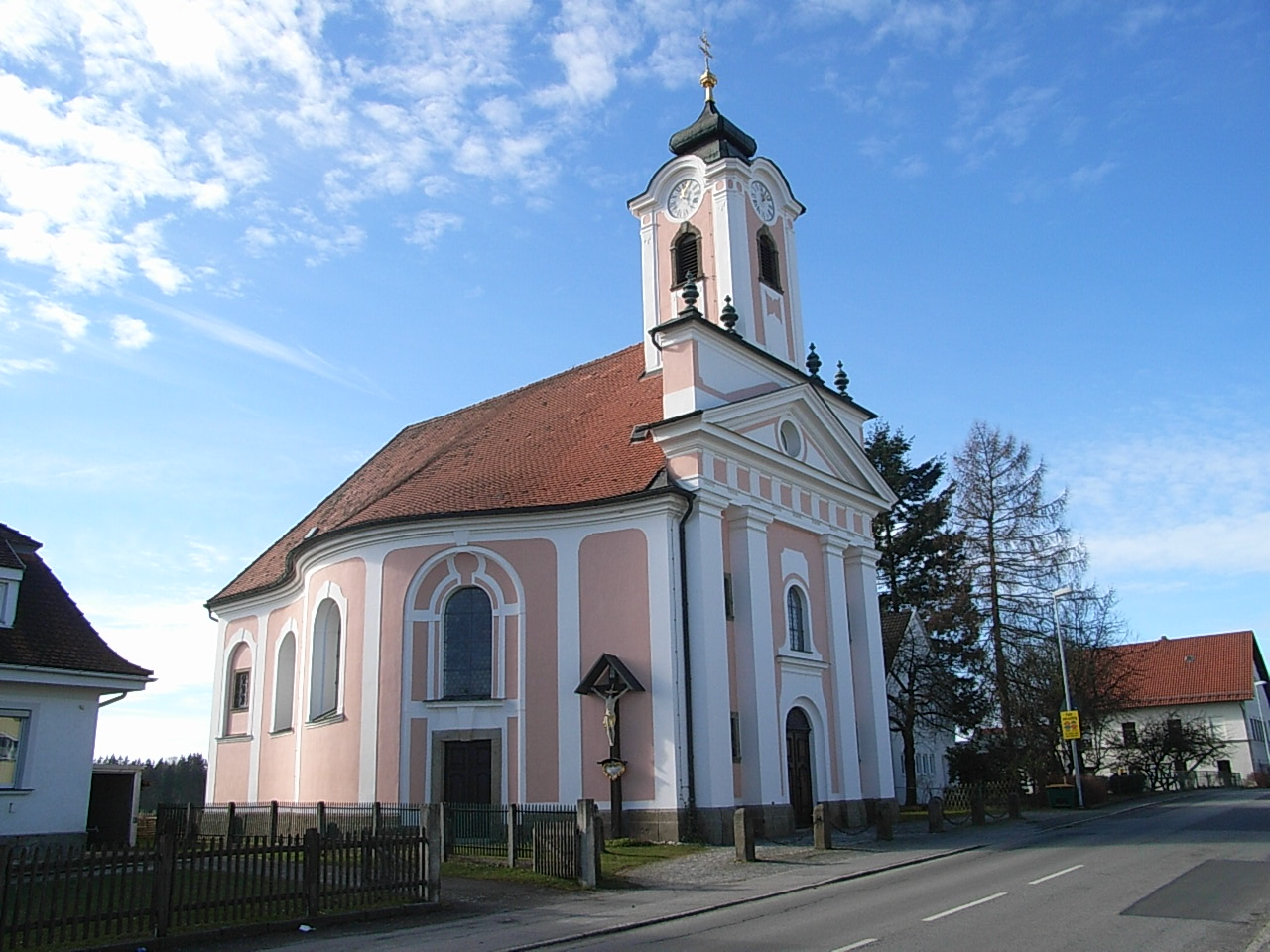 Dommelstadl, Holy Trinity Parish Church from north.